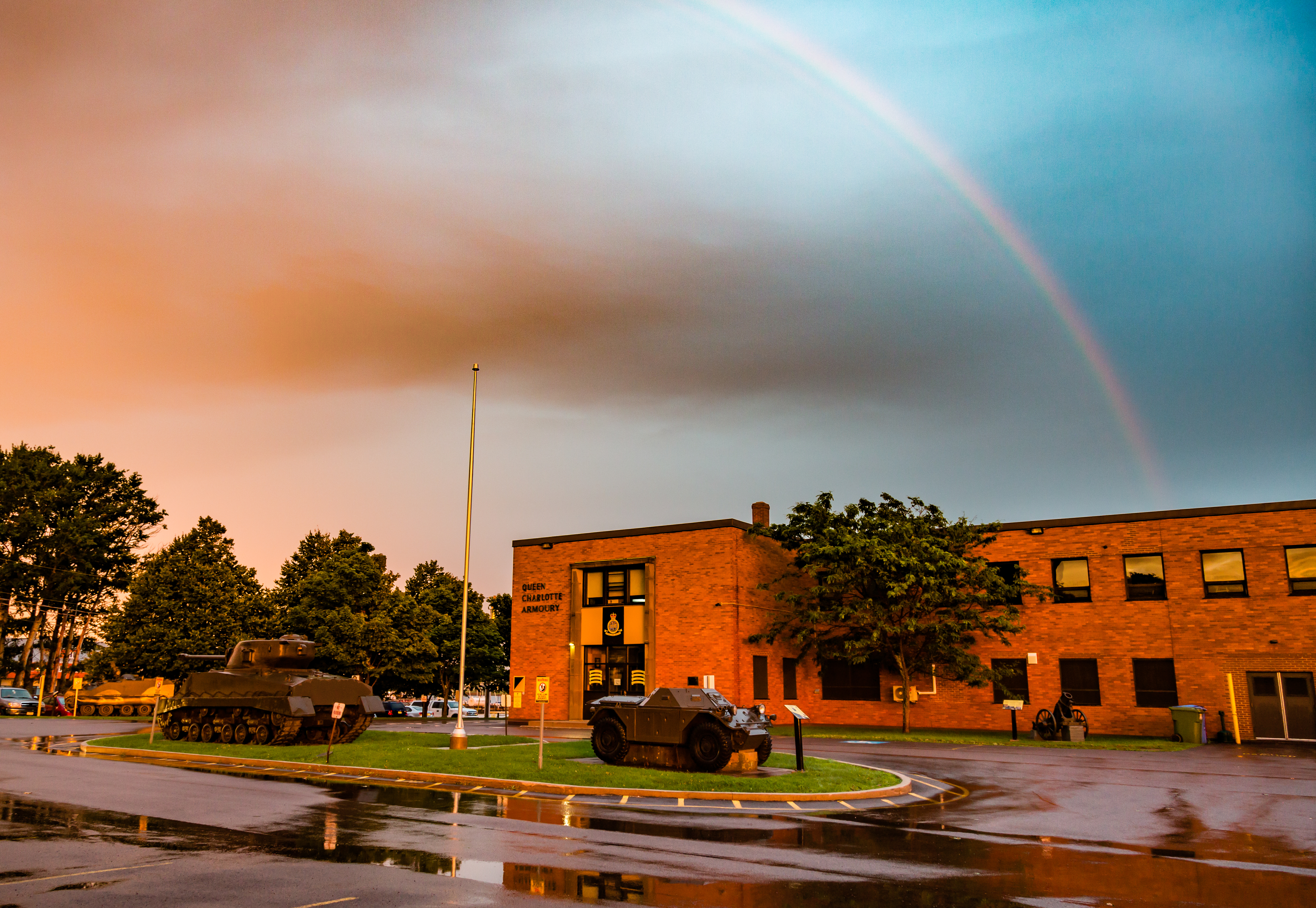 Queen Charlotte Armoury Rainbow – Charlottetown, Prince Edward Island